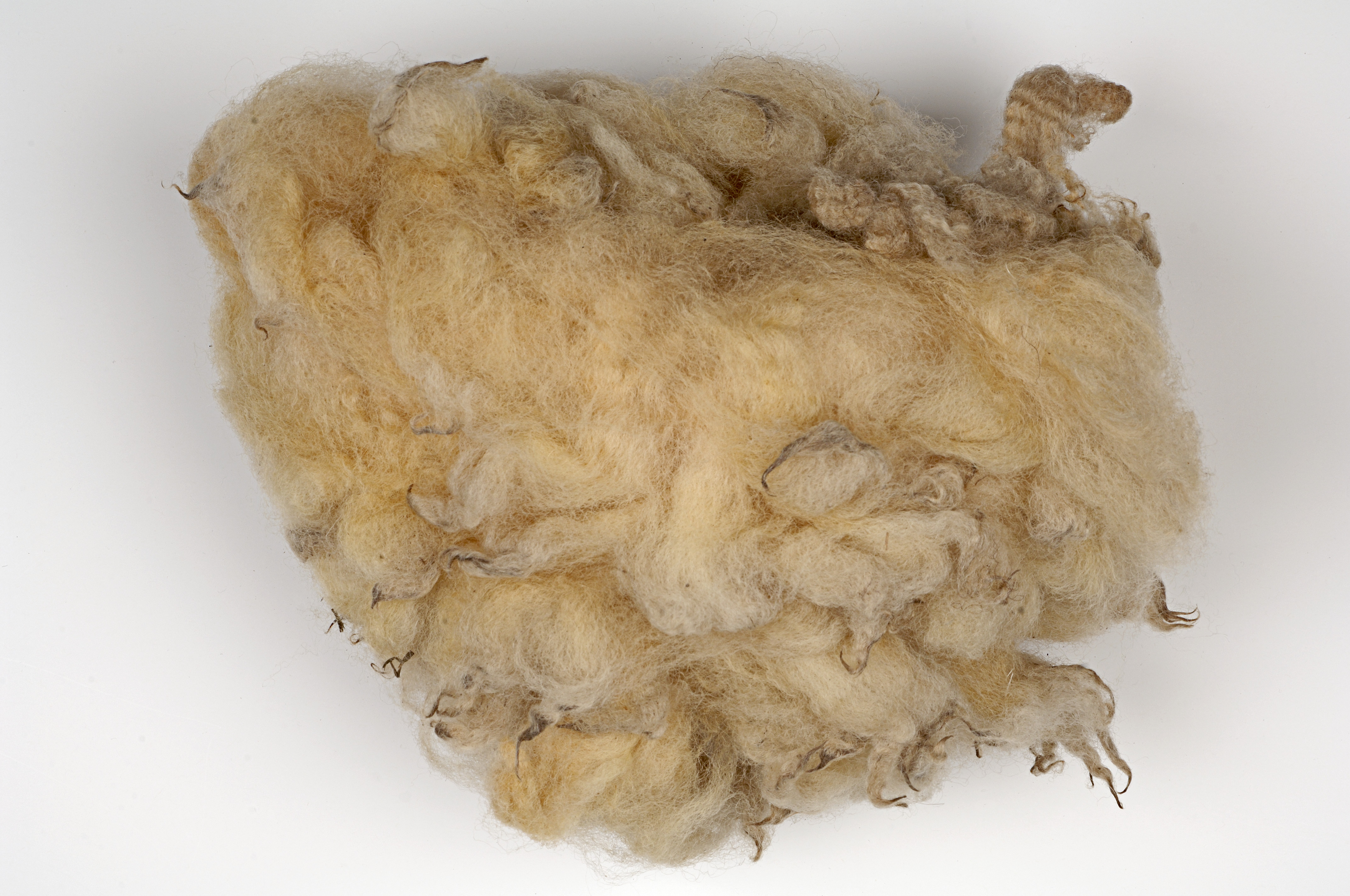 Tray and samples of the textile cabinet in the Textielmuseum in Tilburg. Wool (not washed). Cabinet interior made by Simone de Waart, Material Sense.